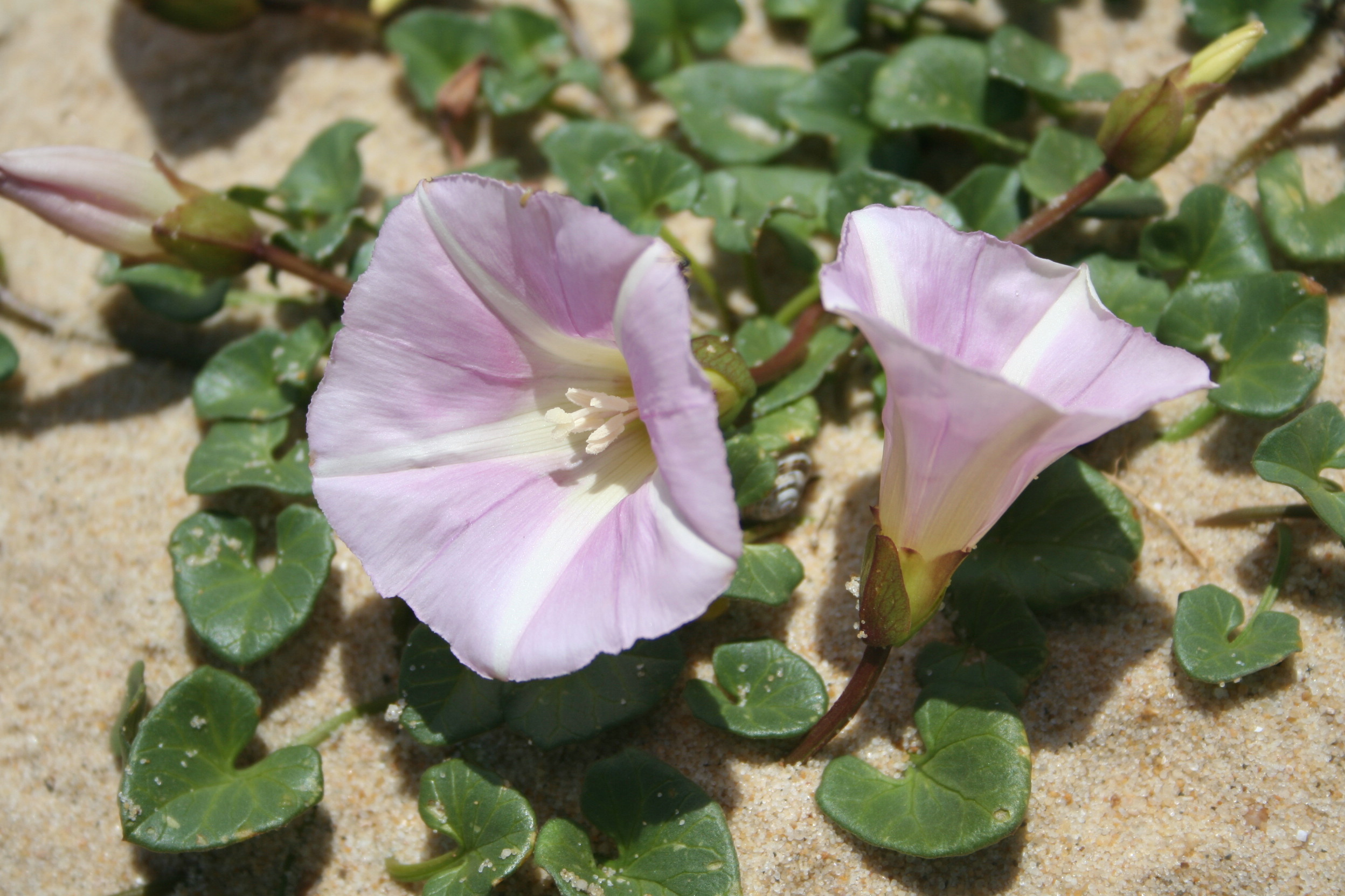 Calystegia soldanella (Sea Bindweed) on a sand dune near Messanges, France.